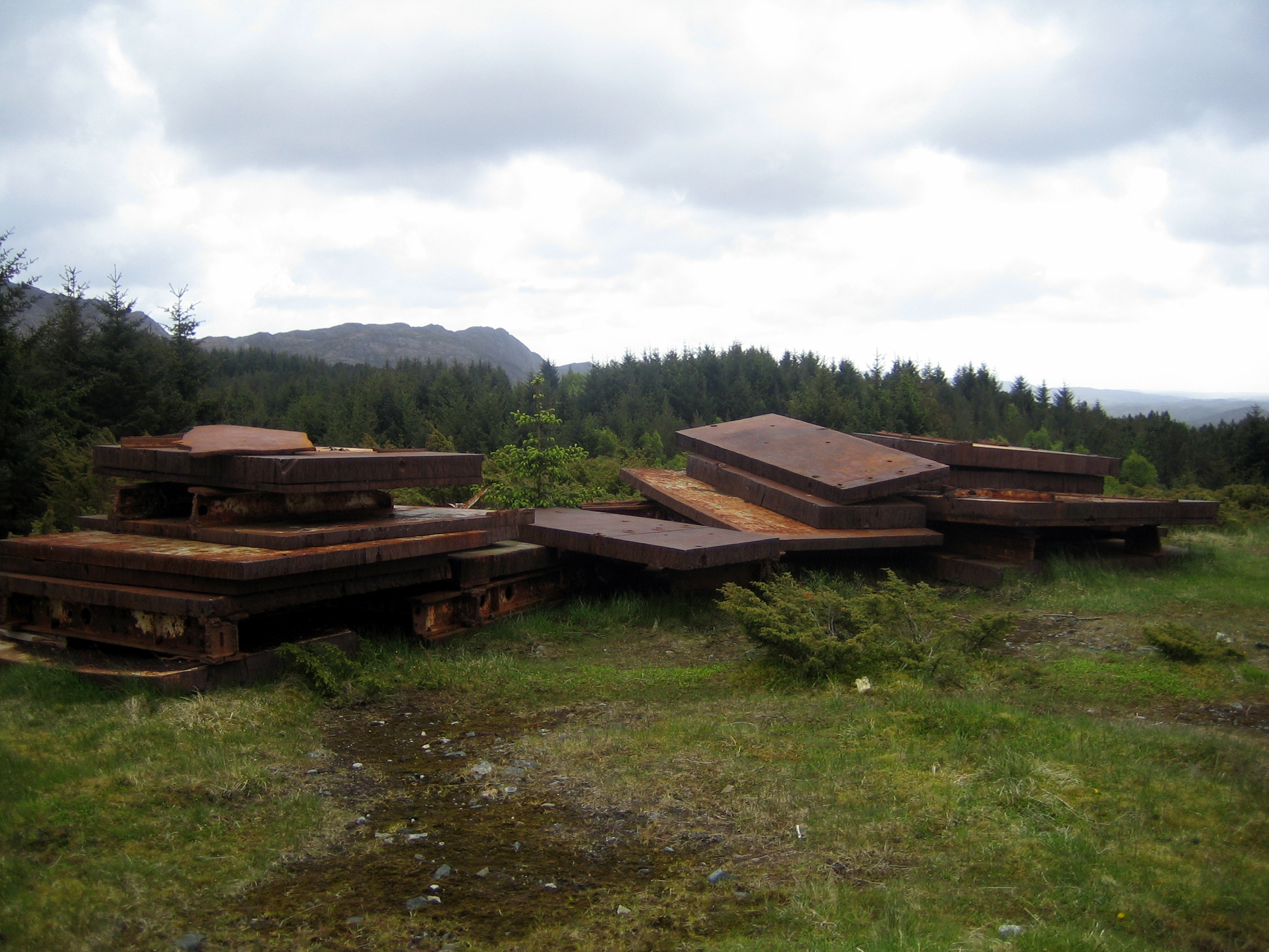 Remains of the main cannon at Fjell festning at Sotra in Hordaland, Norway